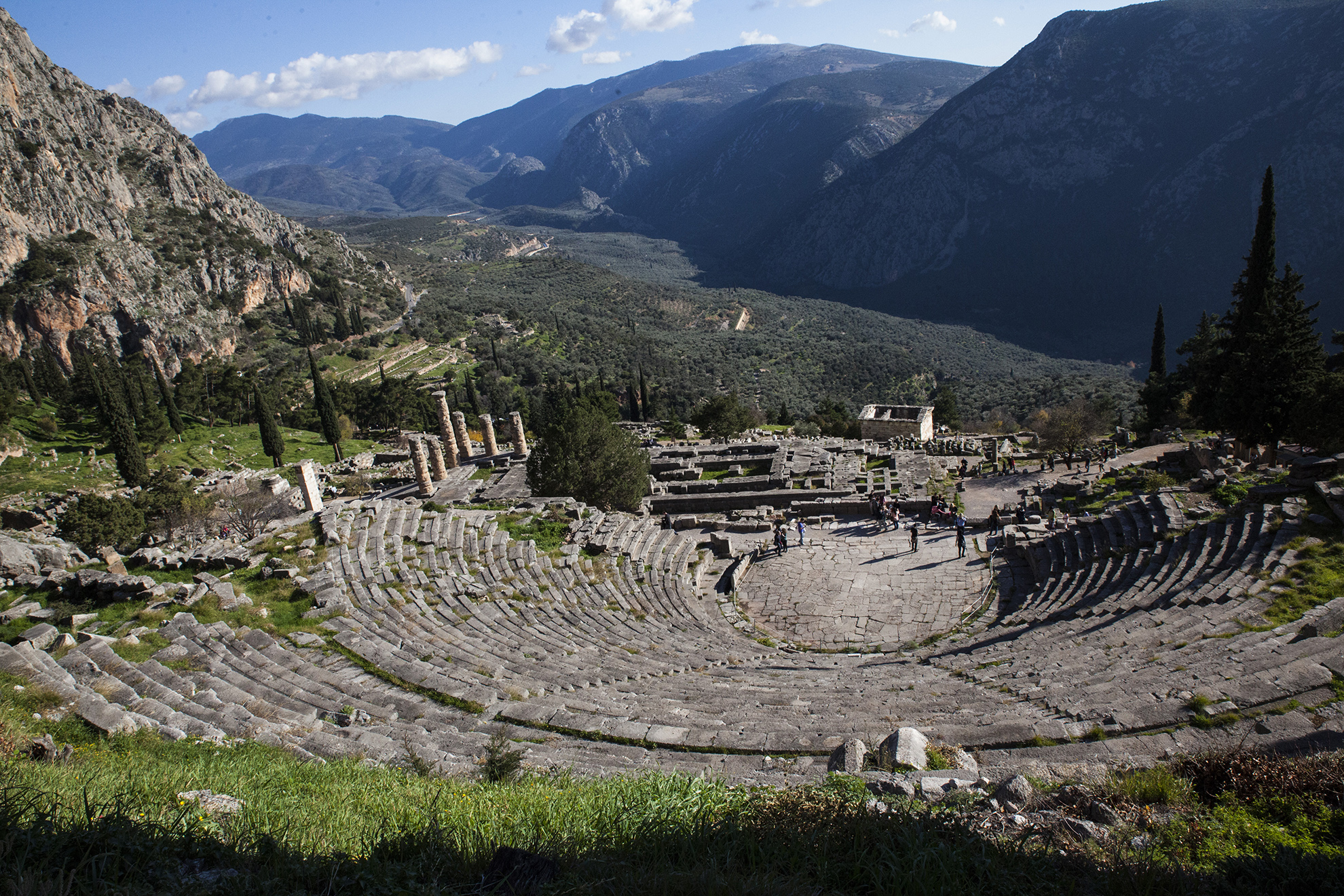 This is a photography of Natura 2000 protected area with ID GR2420002